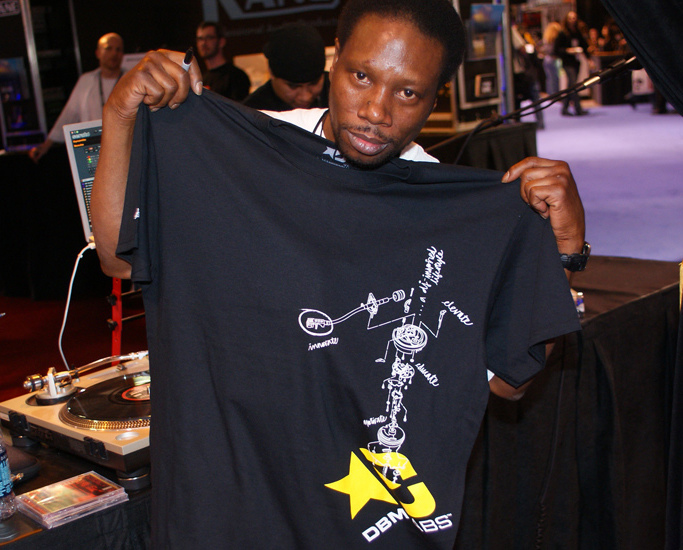 Jazzy Jay after performing at the NAMM 2009 Convention